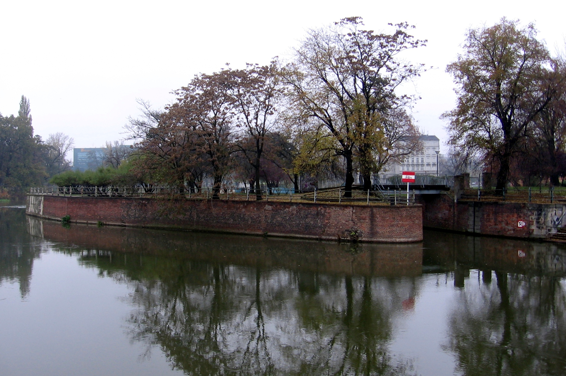 Dahlia Island in Wrocław, Poland